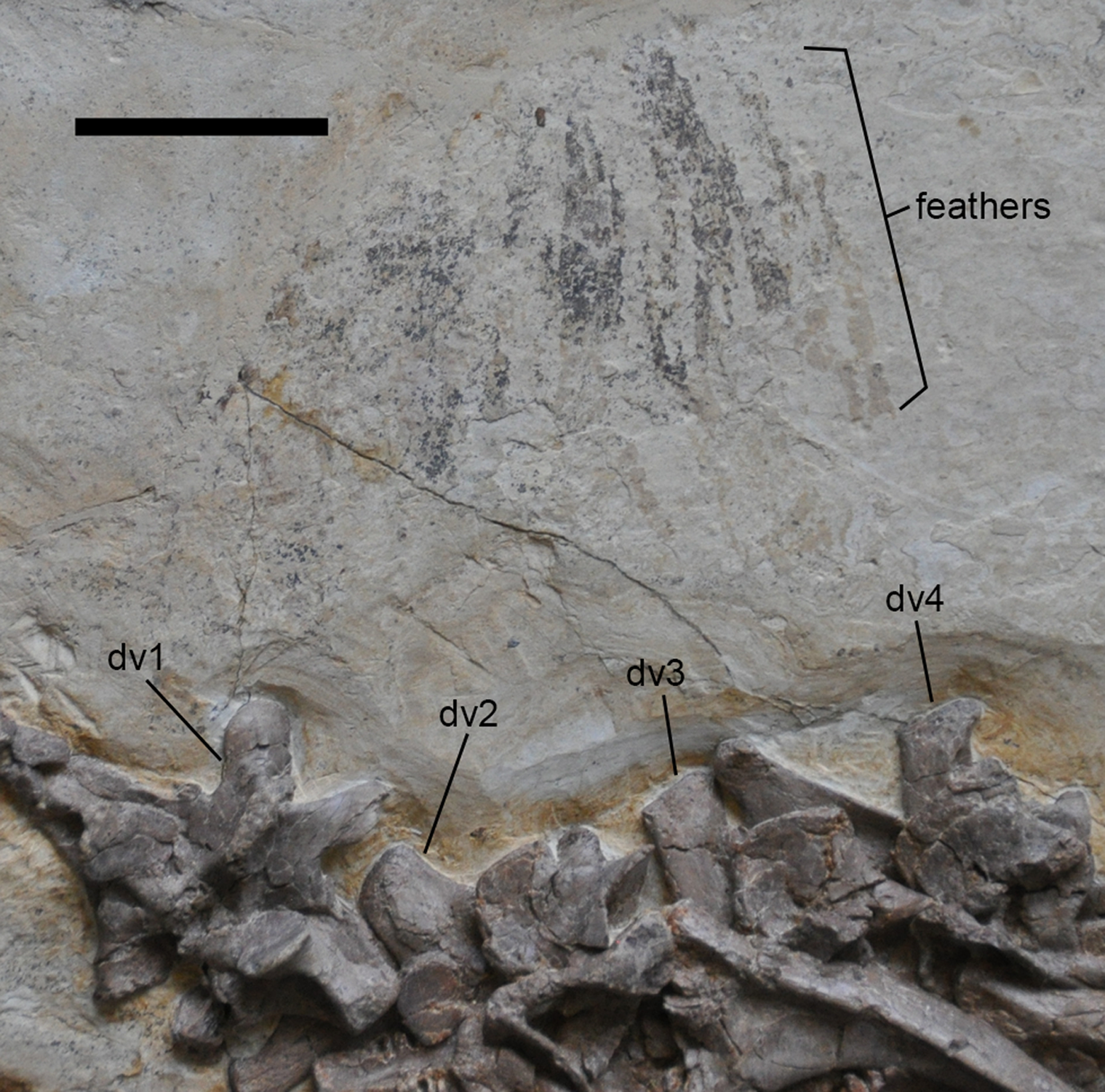 Feathers of Jianchangosaurus yixianensis gen. et sp. nov. The distal halves of the feathers are preserved as carbonized impressions, dorsal to the first to fourth dorsal vertebrae. These features are similar to the elongated broad filamentous feathers along the neck of Beipiaosaurus. See caption of Figure 1 for abbreviations. Scale bar is 5 cm.